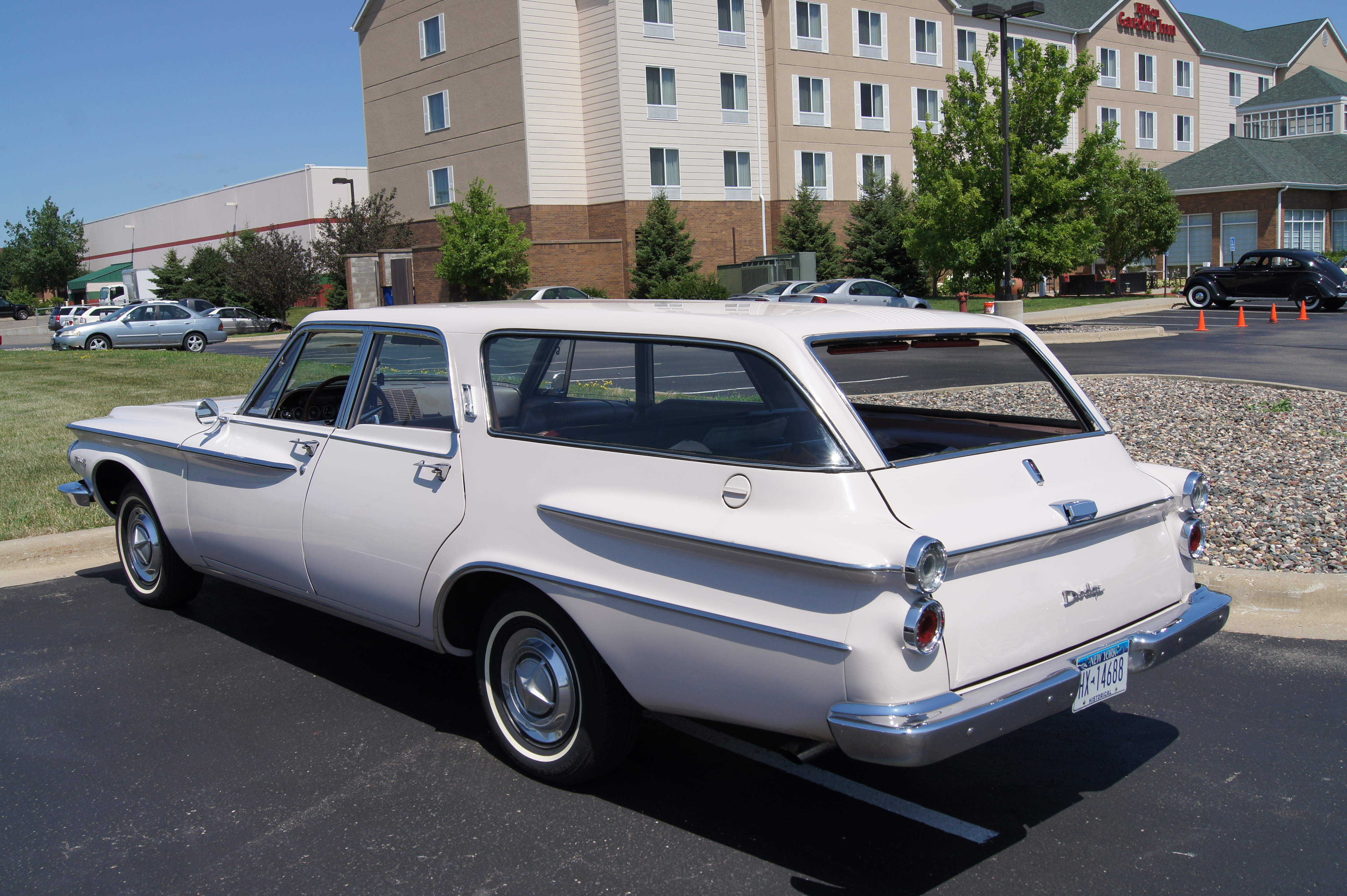 1st Combined Convention 28th Annual National DeSoto Club Convention & 44th Annual Walter P.Chrysler Club Convention July 17 - 21, 2013 Lake Elmo, Minnesota Click link below for more car pictures